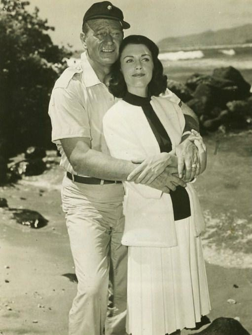 John Wayne AND Elizabeth Allen in Donovan's Reef (1963) - publicity still (original image cropped : see source)